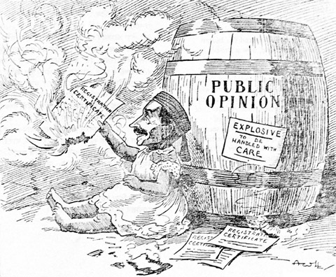 Caricature of Gandhi "Public opinion", South-Africa.